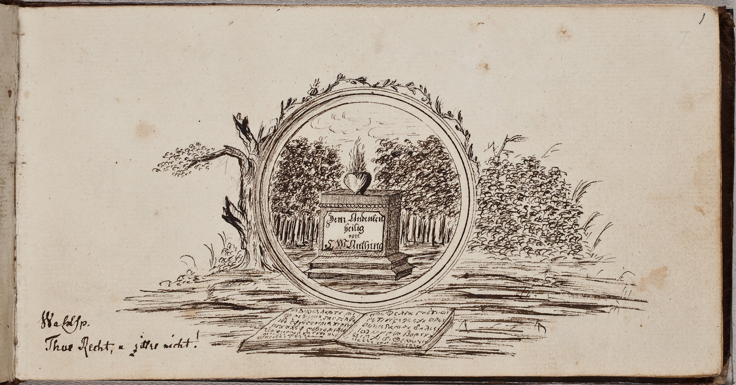 Titlo page of Carl Heinrich Wilhelm Anthing's Album amicorum